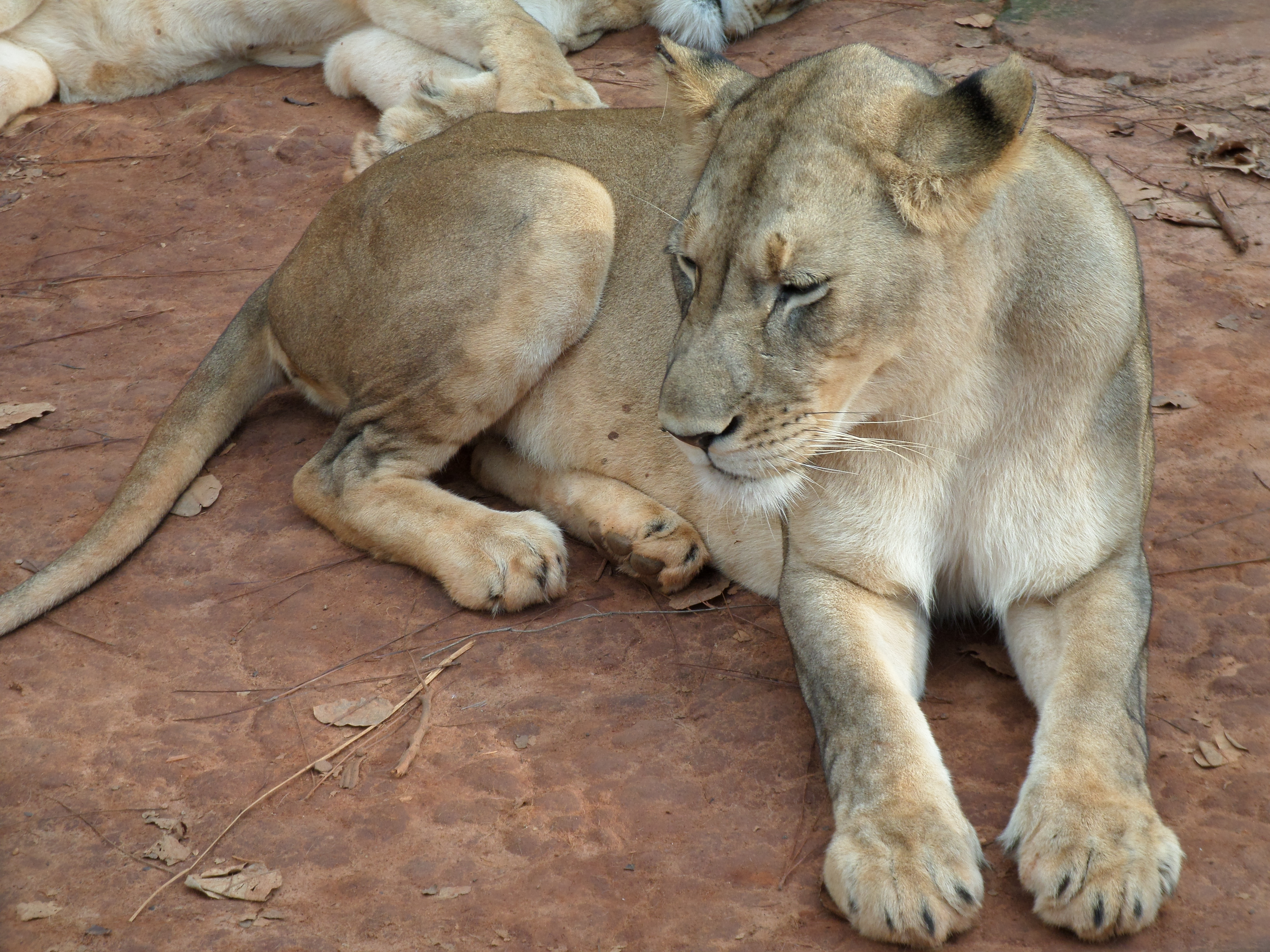 Captive lions behind an iron grid wall in the Mefou Proposed National Park, Cameroon